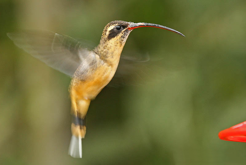 Tawny-bellied Hermit (Phaethornis syrmatophorus) at Tandayapa Bird Lodge, NW Ecuador, 3/11/2007